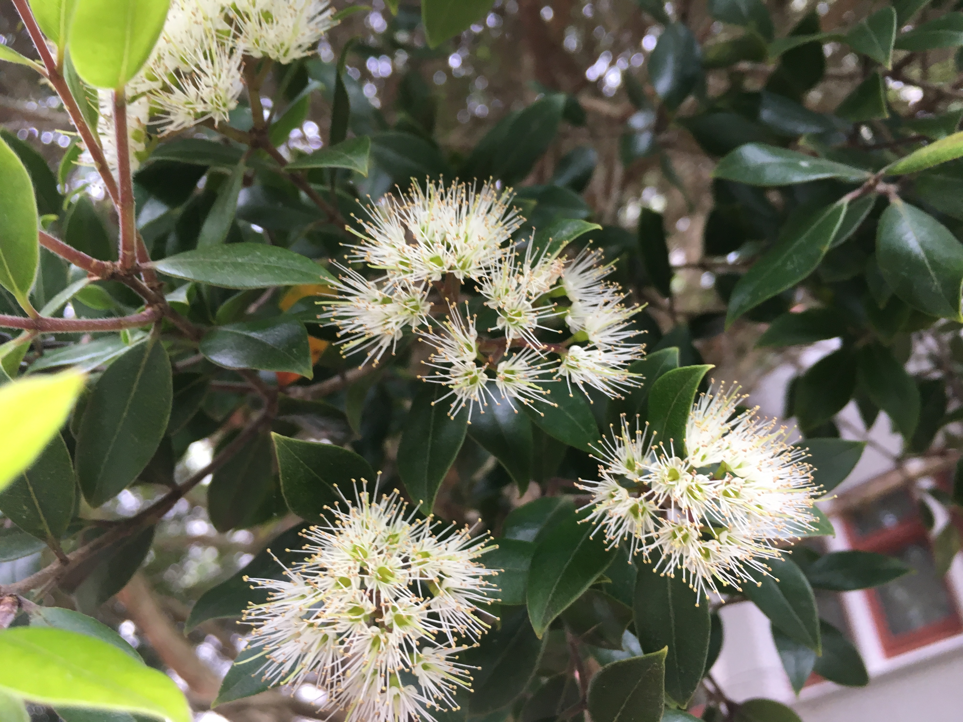 Flowering at University of Auckland campus